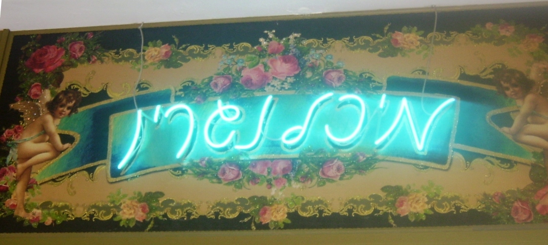 Michal Negrin